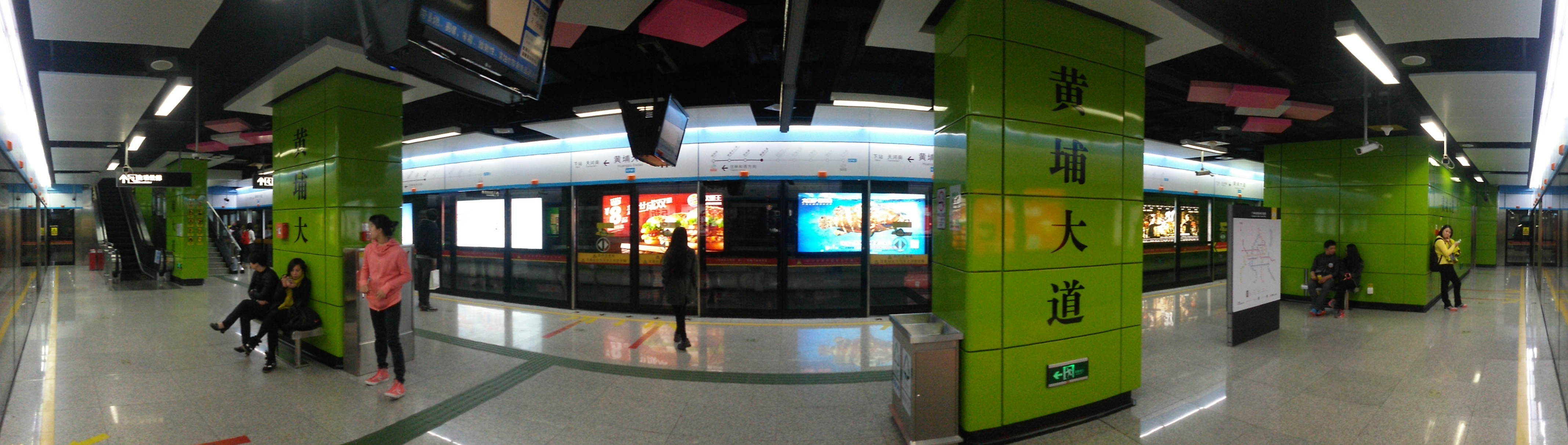 FULL SIGHT of Platform for Huangpu Dadao Station in Guangzhou Metro. 粵語: 廣州地鐵，黃埔大道站嘅月台全景（去廣州塔嗰邊）。